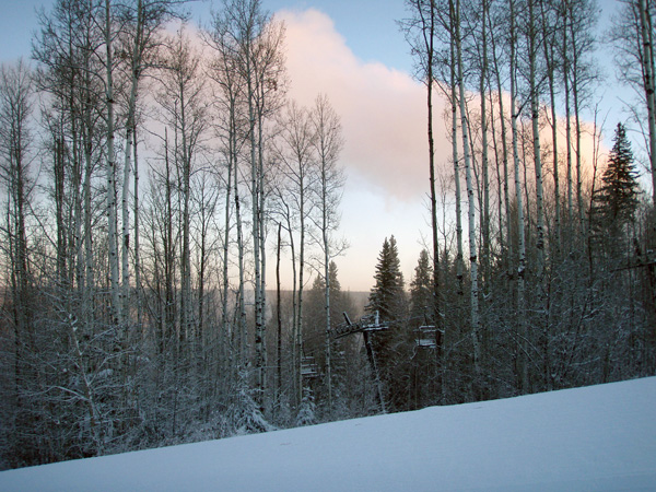 A beautiful winter day at Vista Ridge, the local skill hill in Fort McMurray, Alberta.